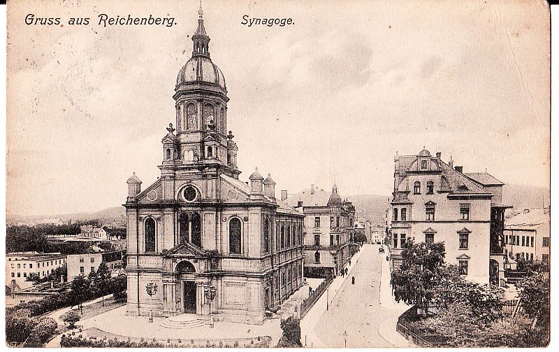 The Liberec Synagogue on a vintage postcard, around 1910